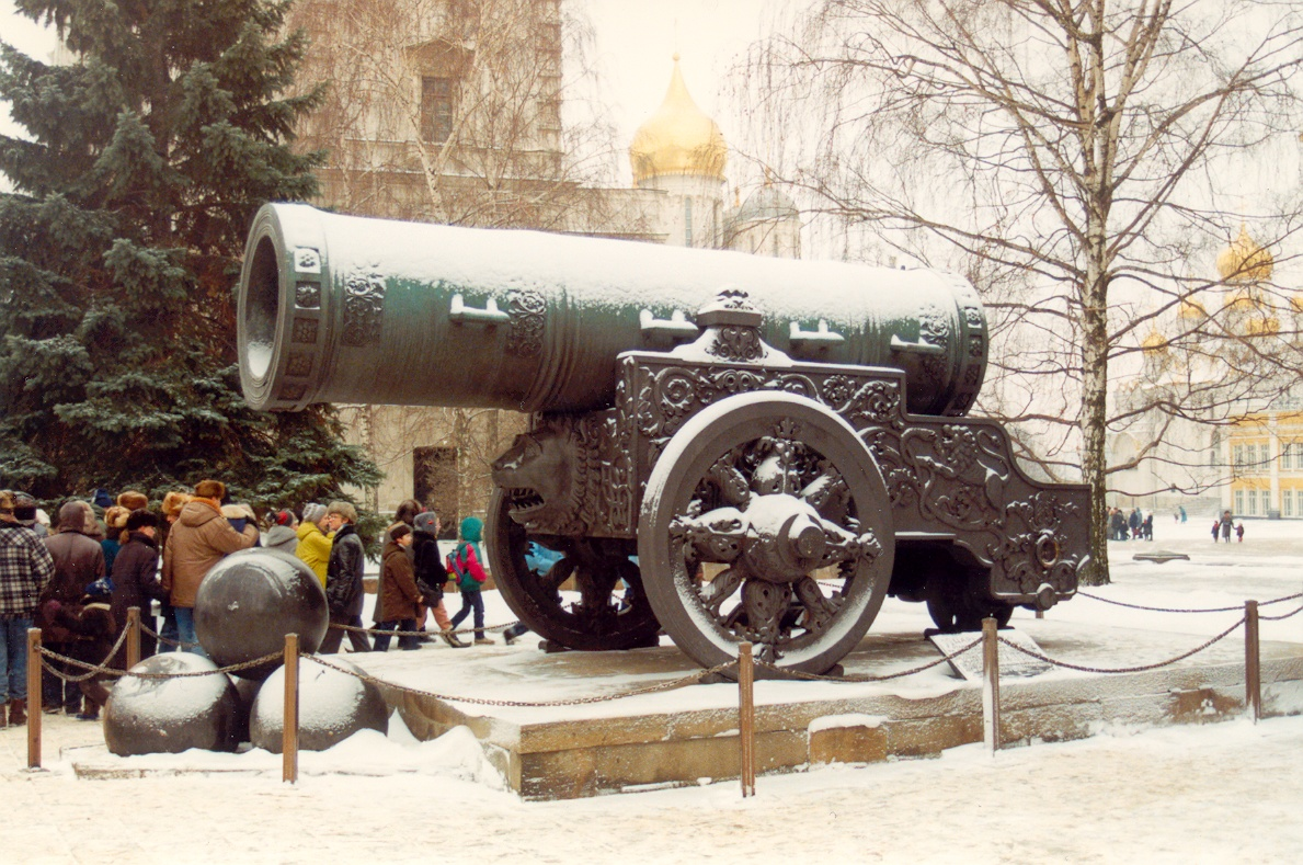 Tsar-Pushka (Imperial Cannon) at the Moscow Kremlin.